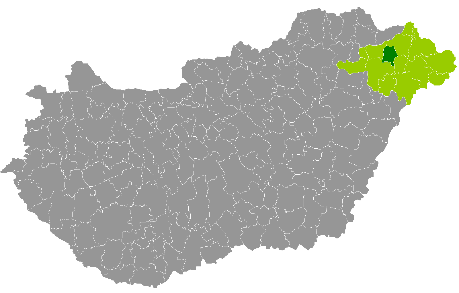 Location of Kemecse District, Szabolcs-Szatmar-Bereg, Hungary